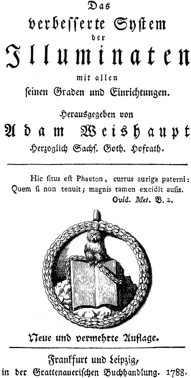 From Das verbesserte System der Illuminaten. This is the original insignia of the Bavarian Illuminati. It pictures the owl of Minerva - symbolising wisdom - on top of an opened book. This version of the owl comes from an early pamphlet, printed around 1788.